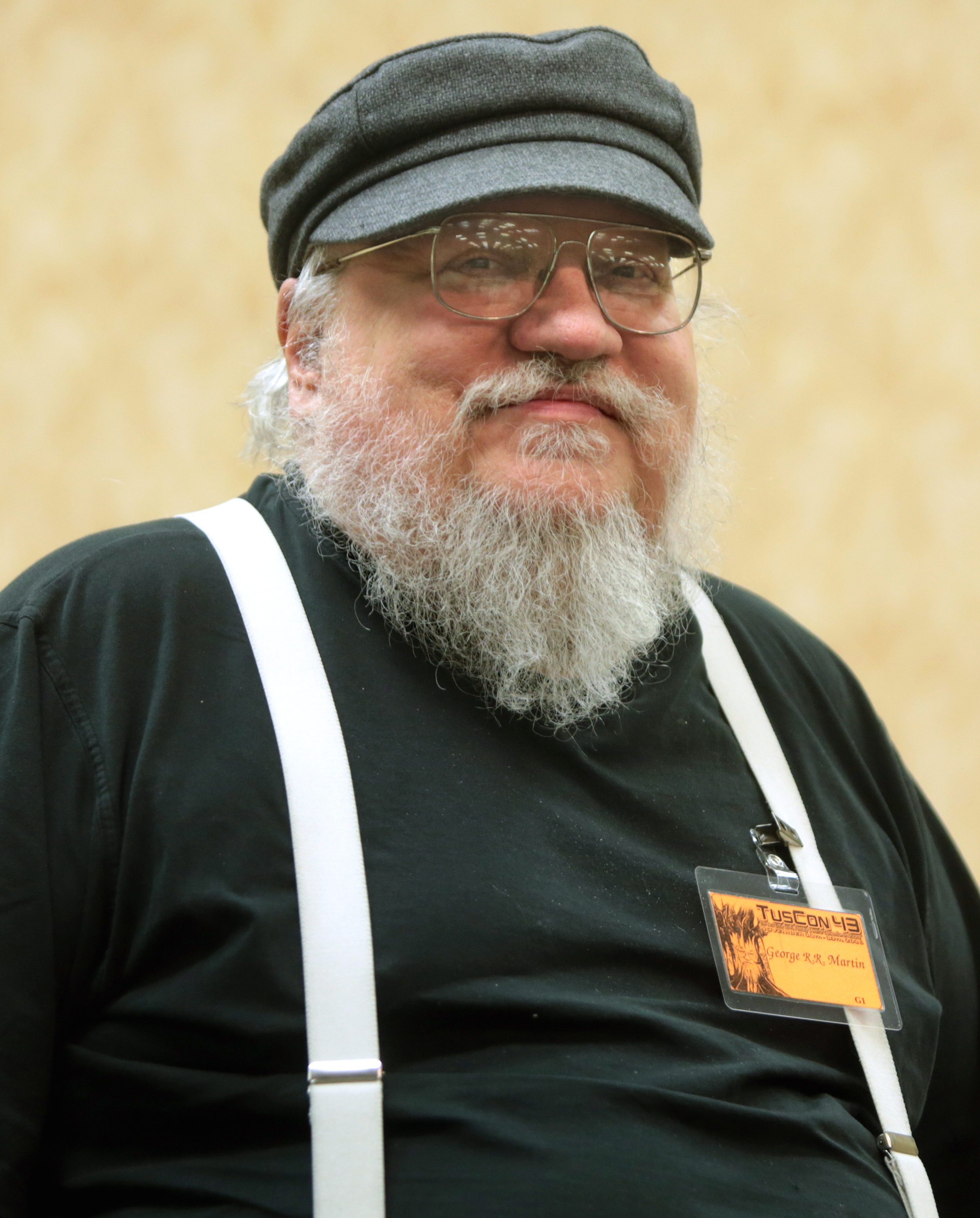 George R. R. Martin at an event in Tucson, Arizona.